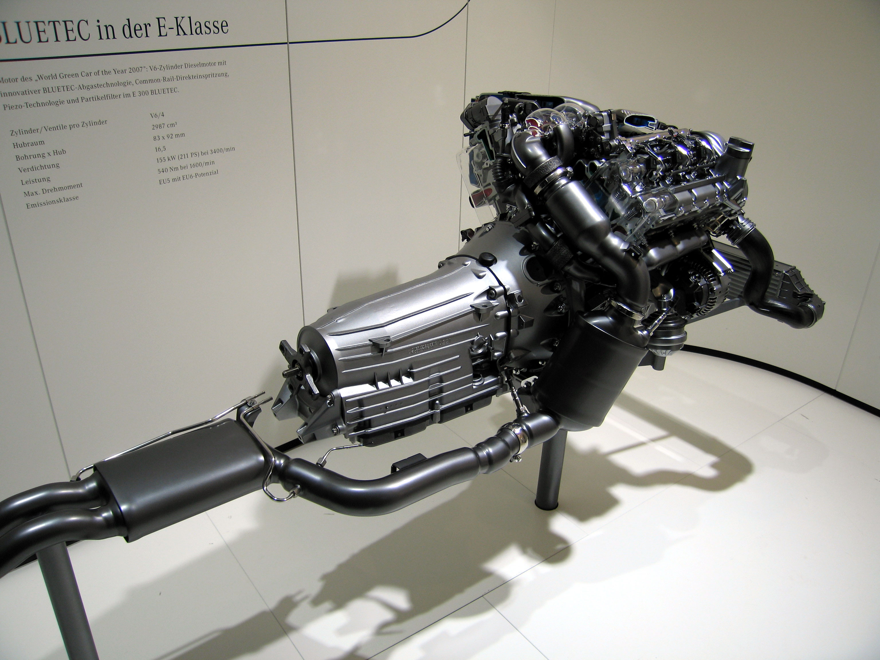 Bluetech-engine of a Mercedes E300